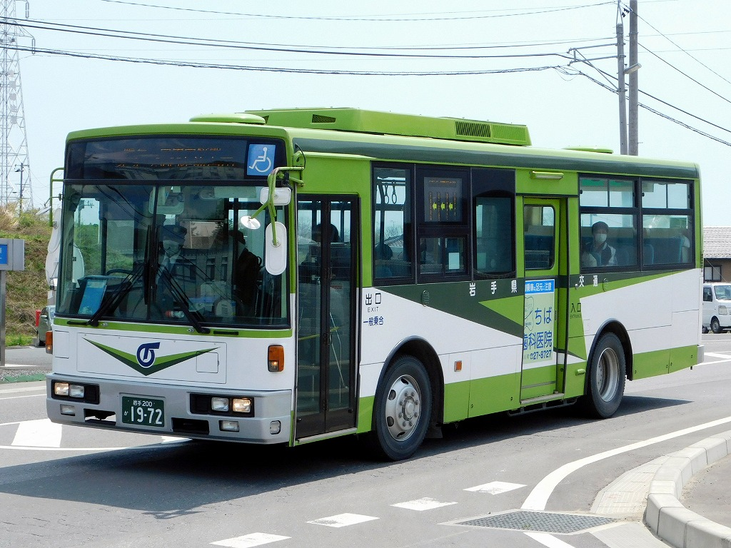 Iwateken kotsu Nissan Diesel space runner RP(KL-RP252GAN,from Enoden bus)